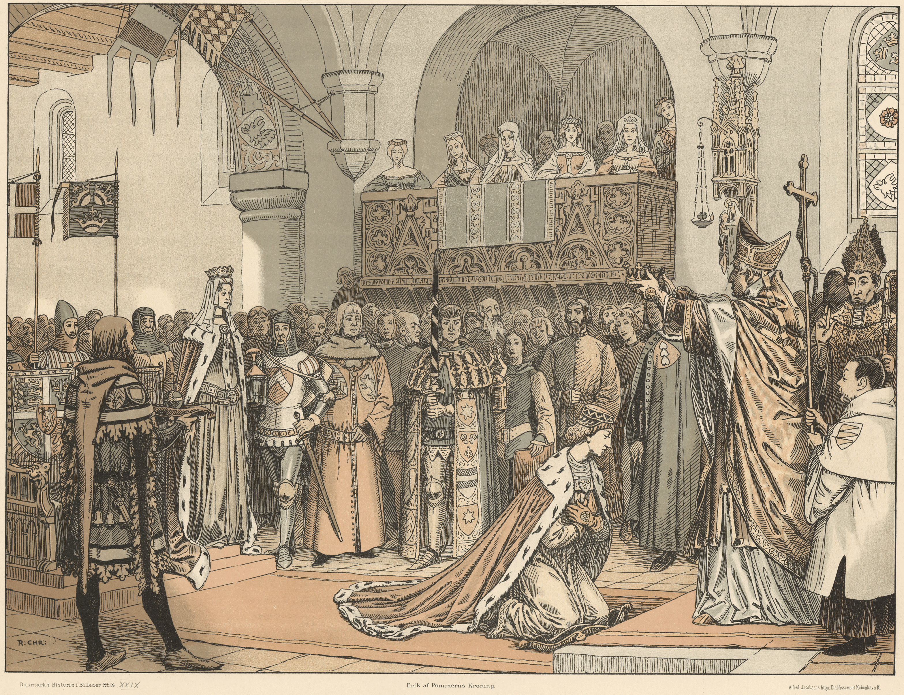 The Danish king Eric of Pomerania was crowned king of Denmark in 1396 (he turned 14 that year). Colour lithograph on paper, glued on cardboard. Signed lower left: R: Chr:. Text: Danmarks Historie i Billeder XLIX (misprint for XXIX) Erik af Pommerns Kroning. Alfred Jacobsens litogr. Etablissement, København K. Published in 1898, documented in V.E. Clausen: Folkelig grafik i Skandinavien, 1973, page 144. Cropped by uploader.